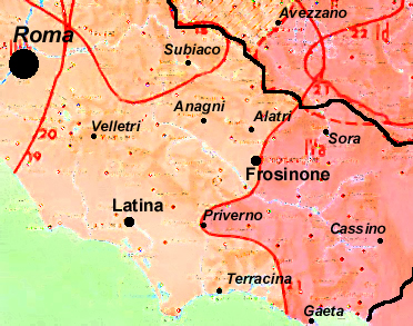 Linguistic map of Southern Latium (Pellegrini). See Giammarco E, Profilo dei dialetti italiani (a cura di Manlio Cortellazzo)- Abruzzo, CNR Pacini ed, Pisa 1979 Map of Italian dialects by Pellegrini Merlo C., Fonologia del dialetto di Sora, Forni ed., Bologna 1997